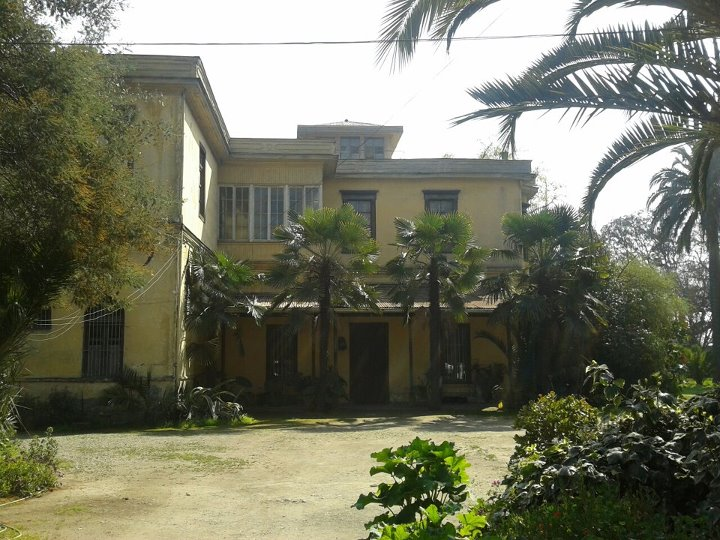 This is a photo of a national monument in Chile: 202